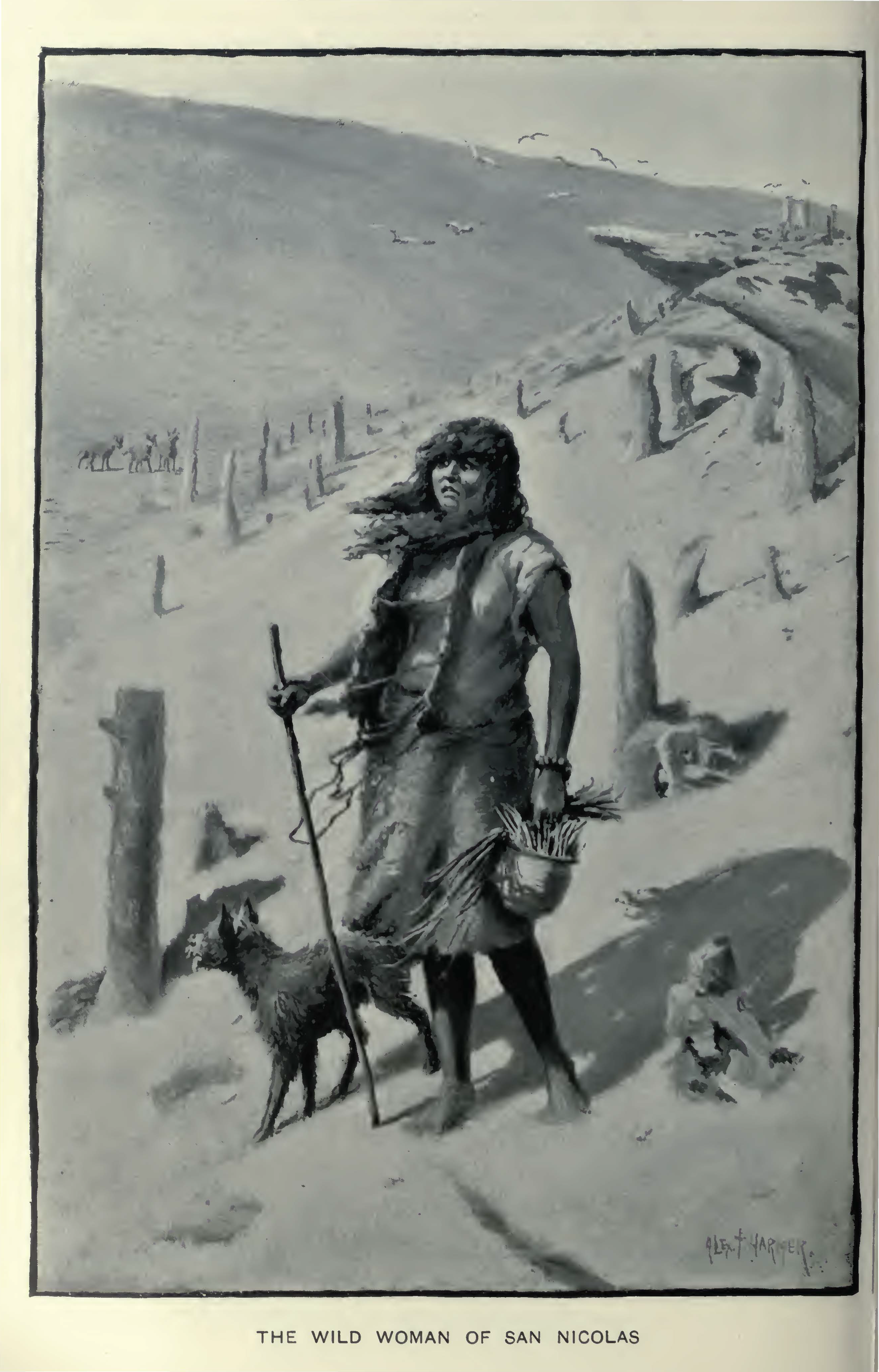 Illustration of Nicoleño woman, Juana Maria, from James M. Gibbons's "The Wild Woman of San Nicolas Island", published in Californian Illustrated Magazine 4, no. 5 (October 1893)